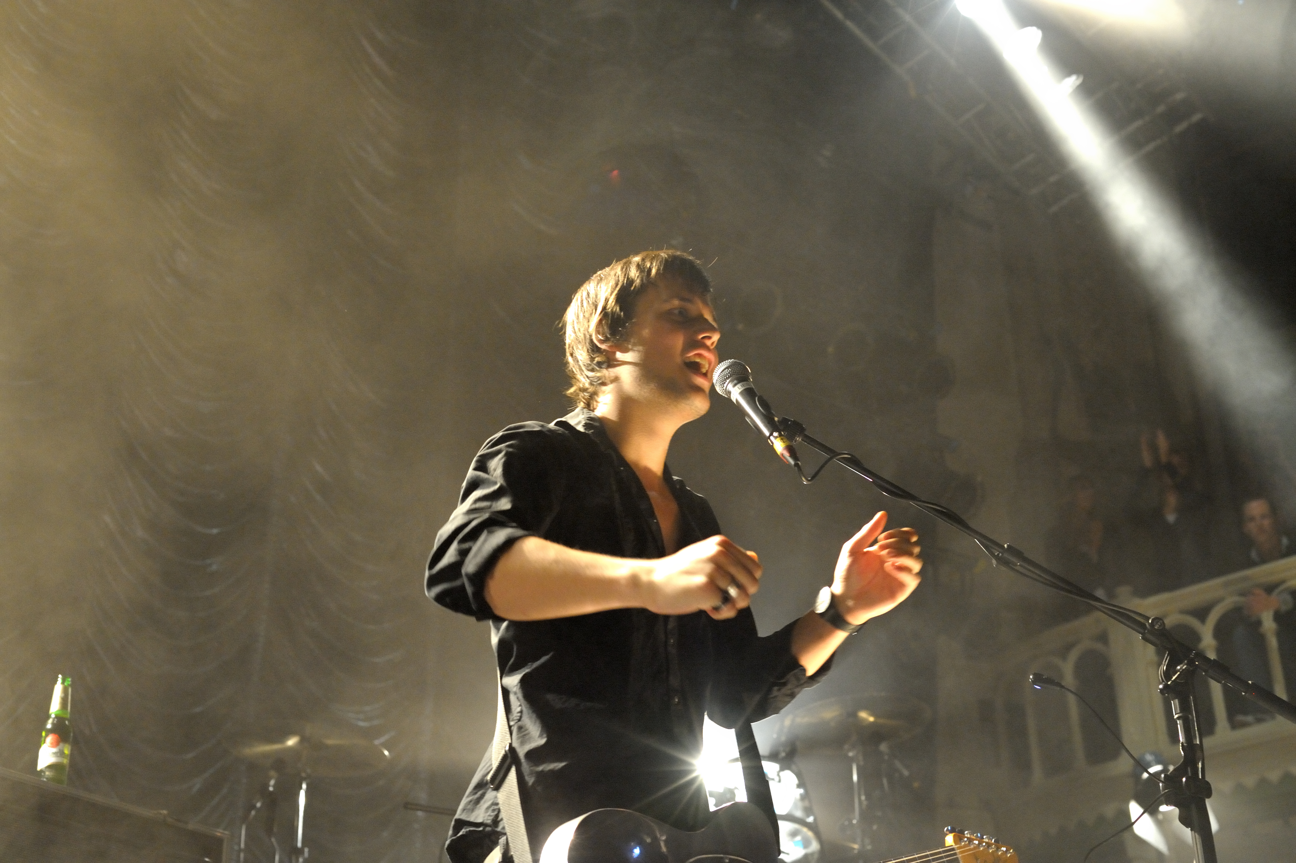 White Lies @ Paradiso Amsterdam 2009-10-21